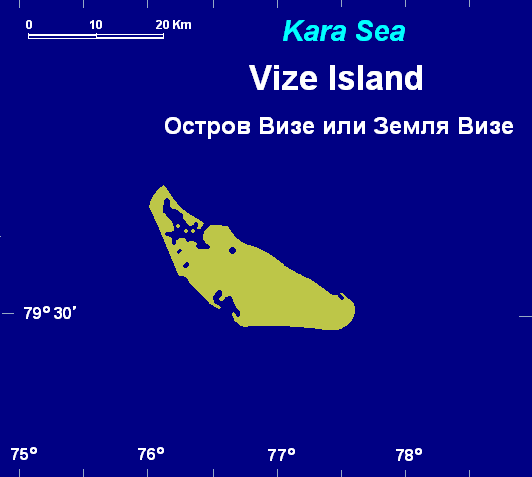 Map of Vize Island, Kara Sea